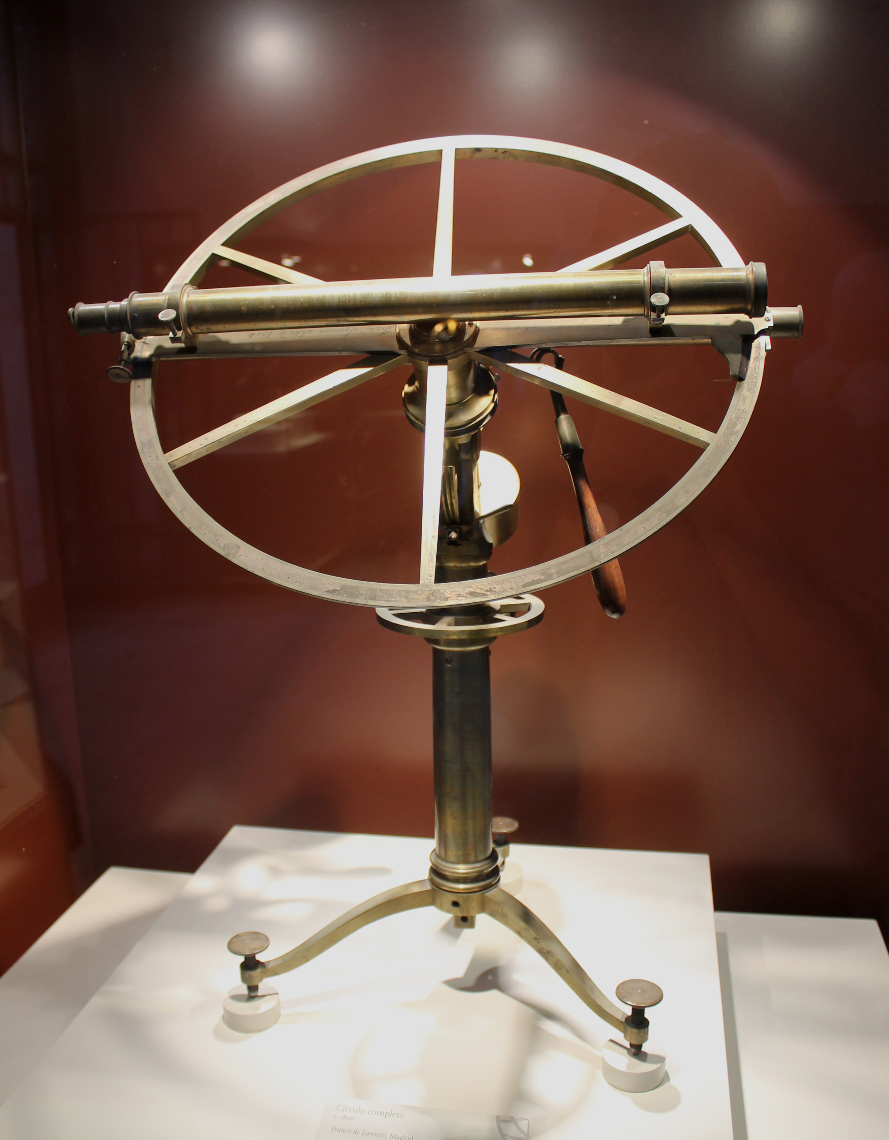 A reflecting circle.